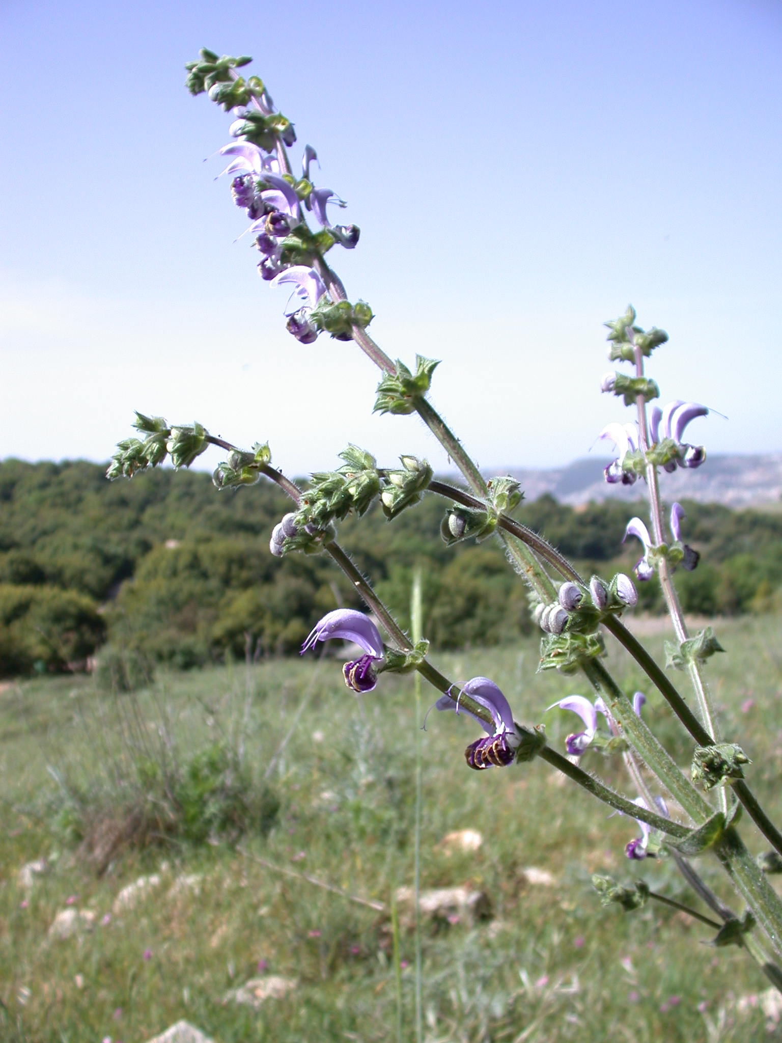 Salvia indica L. (מרווה כחולה), Mount Meiron, Upper Galilee, Israel, April 18, 2008. Other names: Salvia bracteata Banks & Sol.